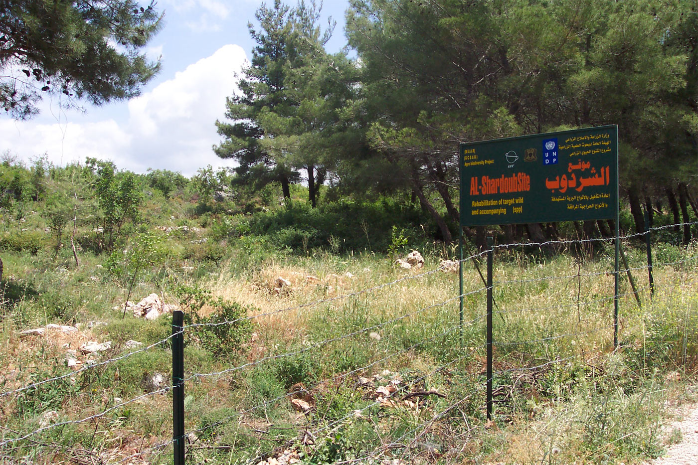 Nigel Maxted, University of Birmingham, picture taken in Syria